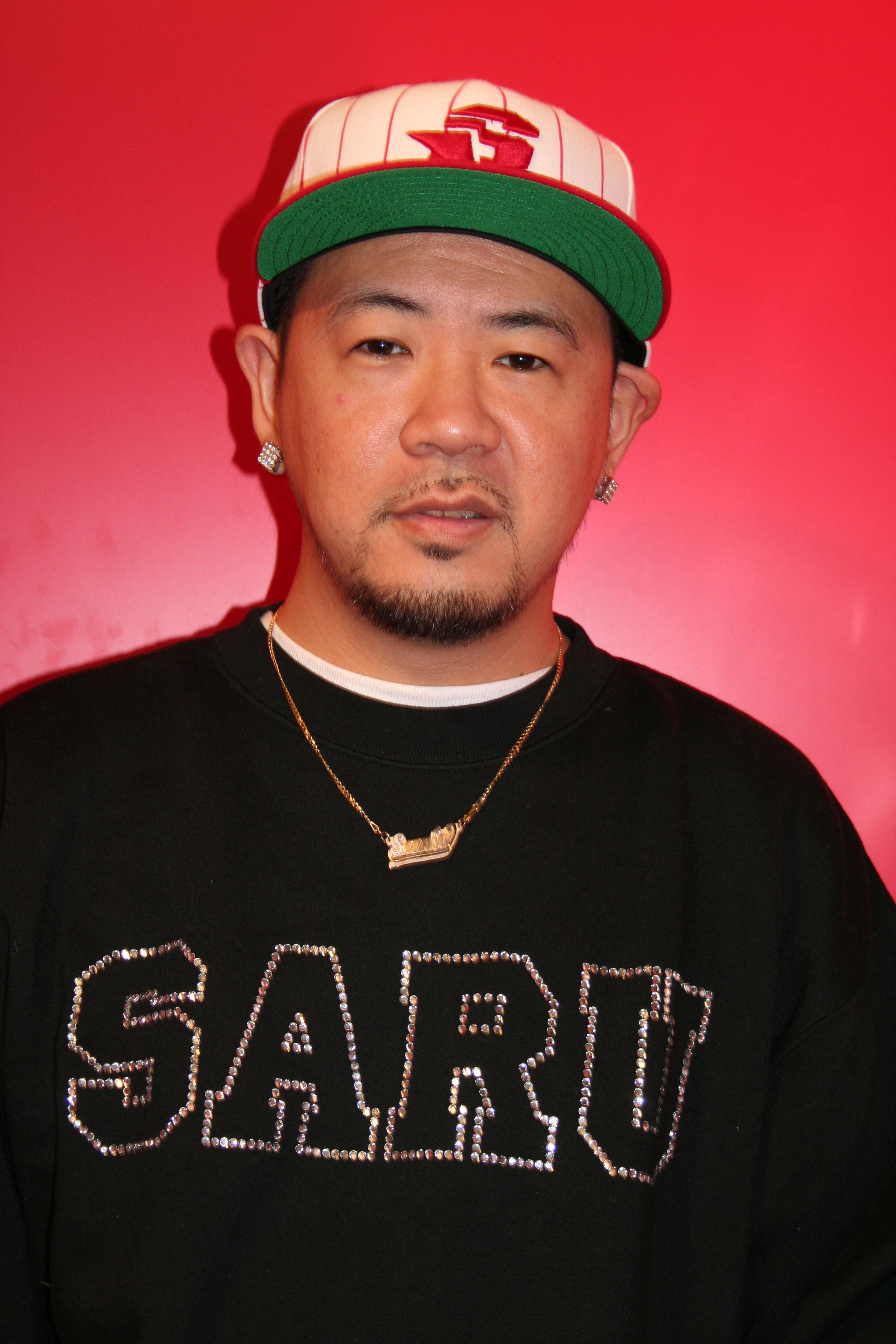 Autograph session with Santa Inoue at Manga Expo 2006 (Paris, France).